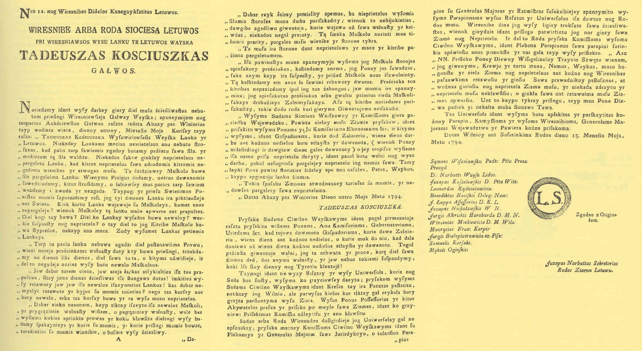 Printed manifesto of Tadeušas Kosciuška uprising (Vilnius uprising) in Lithuanian language. Issued in Vilnius on 15th of May, 1794. Distributed in Vilnius and further in Lithuania.